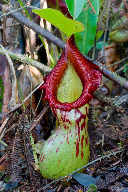 Nepenthes burkei photographed on Mount Halcon, Mindoro (Alastair Robinson, June 2007) - lower pitcher.